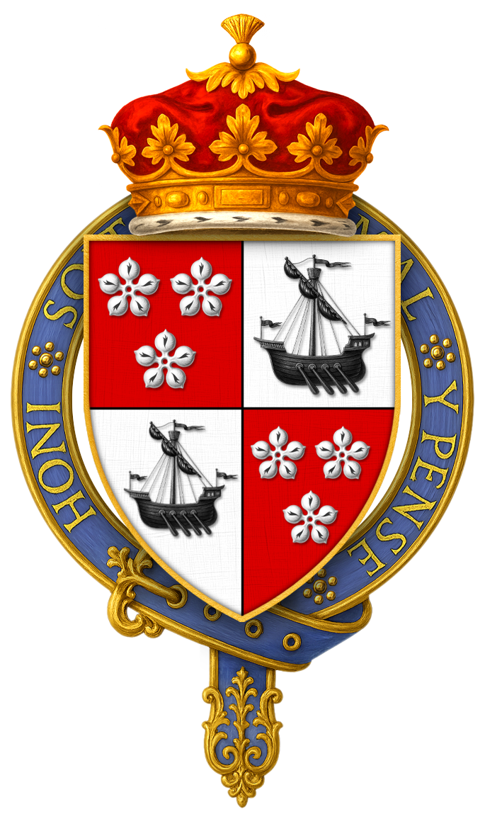 Garter-encircled shield of arms of James Hamilton, 3rd Duke of Abercorn, KG, as displayed on his Order of the Garter stall plate in St. George's Chapel.